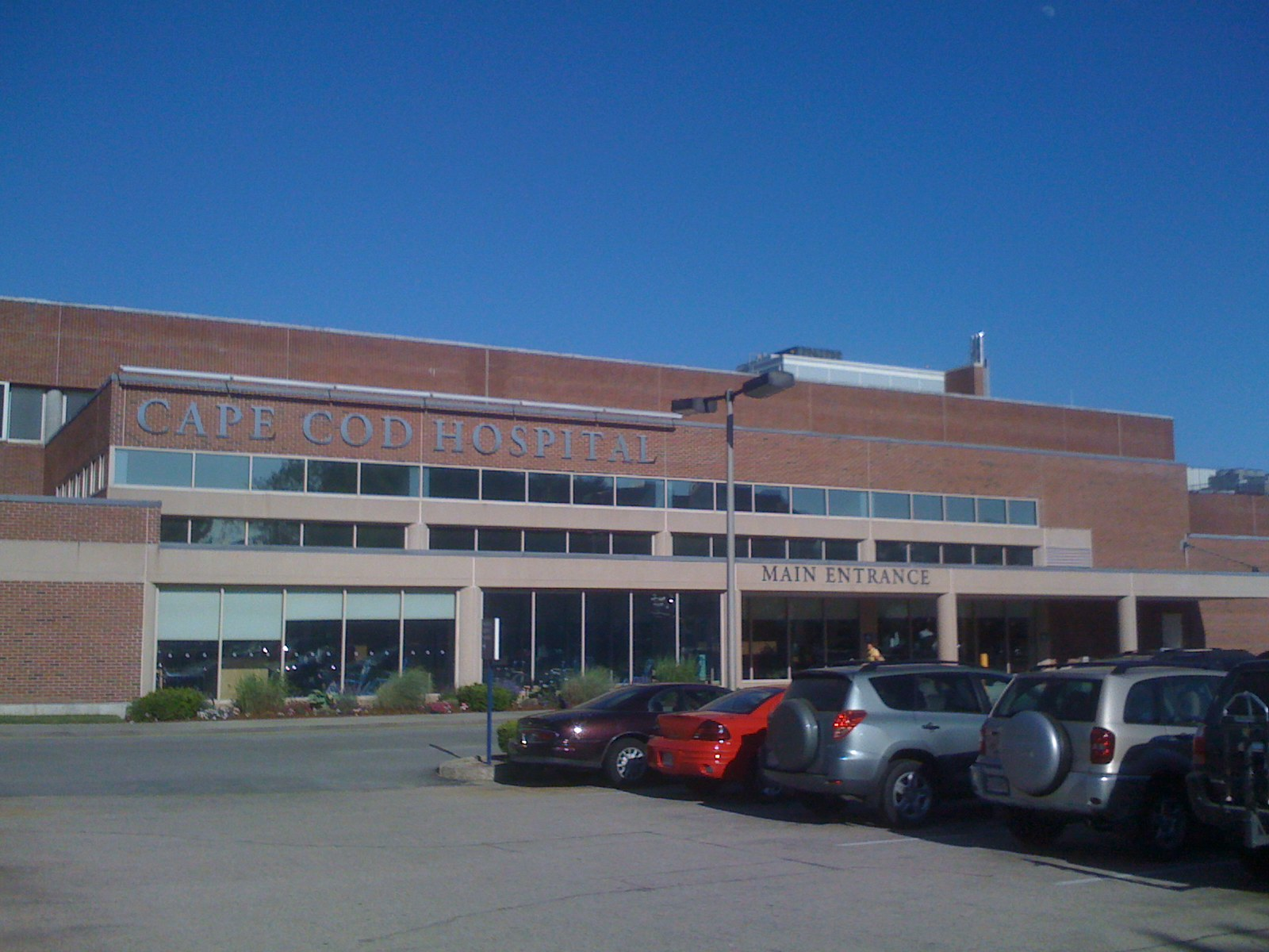 Cape Cod Hospital wikipedia needs a photo for the article about this hospital and i stopped by to visit my uncle there.